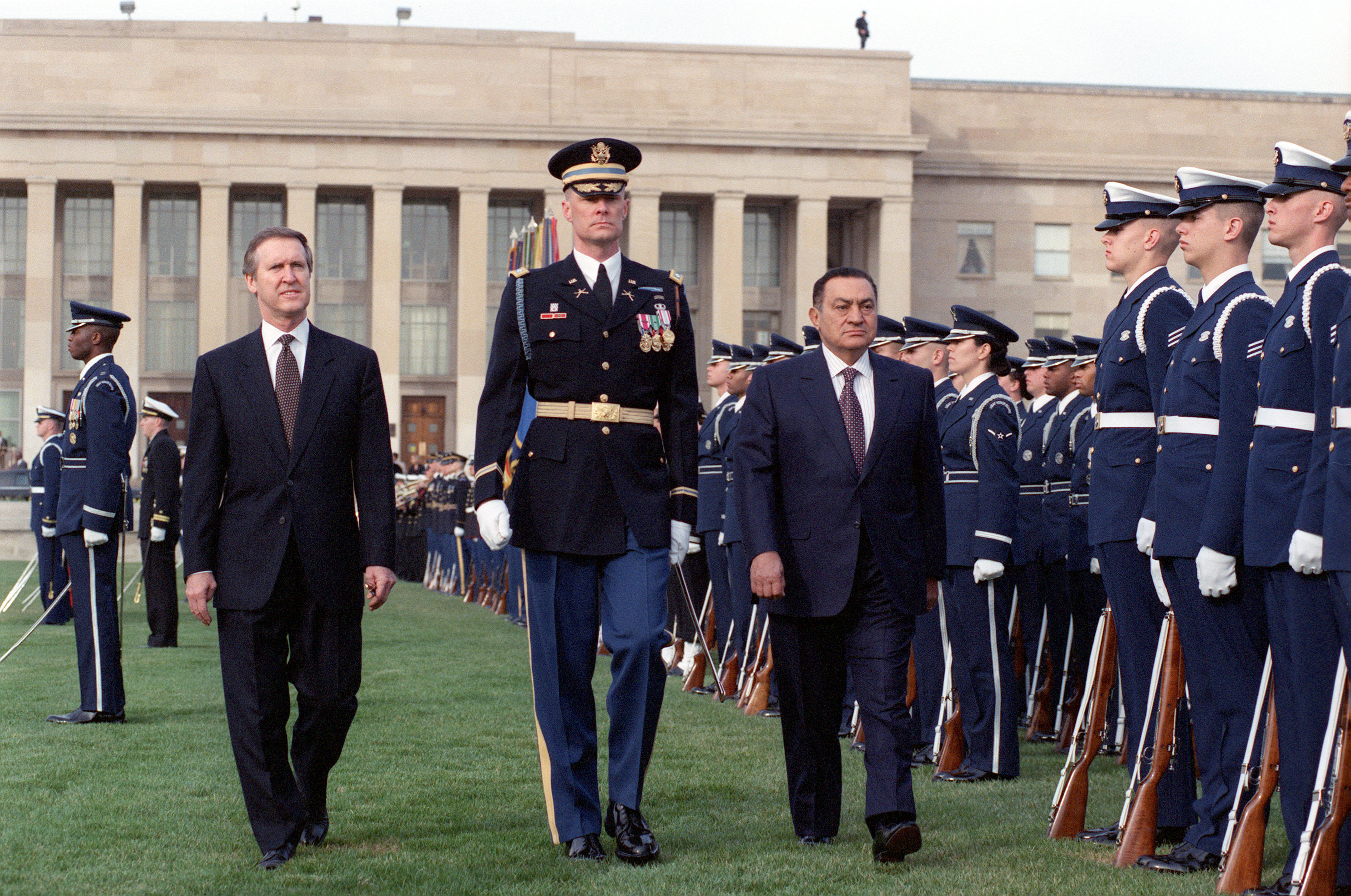 Secretary of Defense William S. Cohen (left) joins Lt. Col. Charles Sniffin (center), U.S. Army, the commander of troops, in escorting visiting Egyptian President Hosni Mubarak (right) as he inspects the joint services honor guard during a March 30, 2000, ceremony welcoming him to the Pentagon. Following the full honors arrival ceremony, Mubarak participated in a working breakfast attended by not only senior Department of Defense officials, but also several prominent U.S. senators.